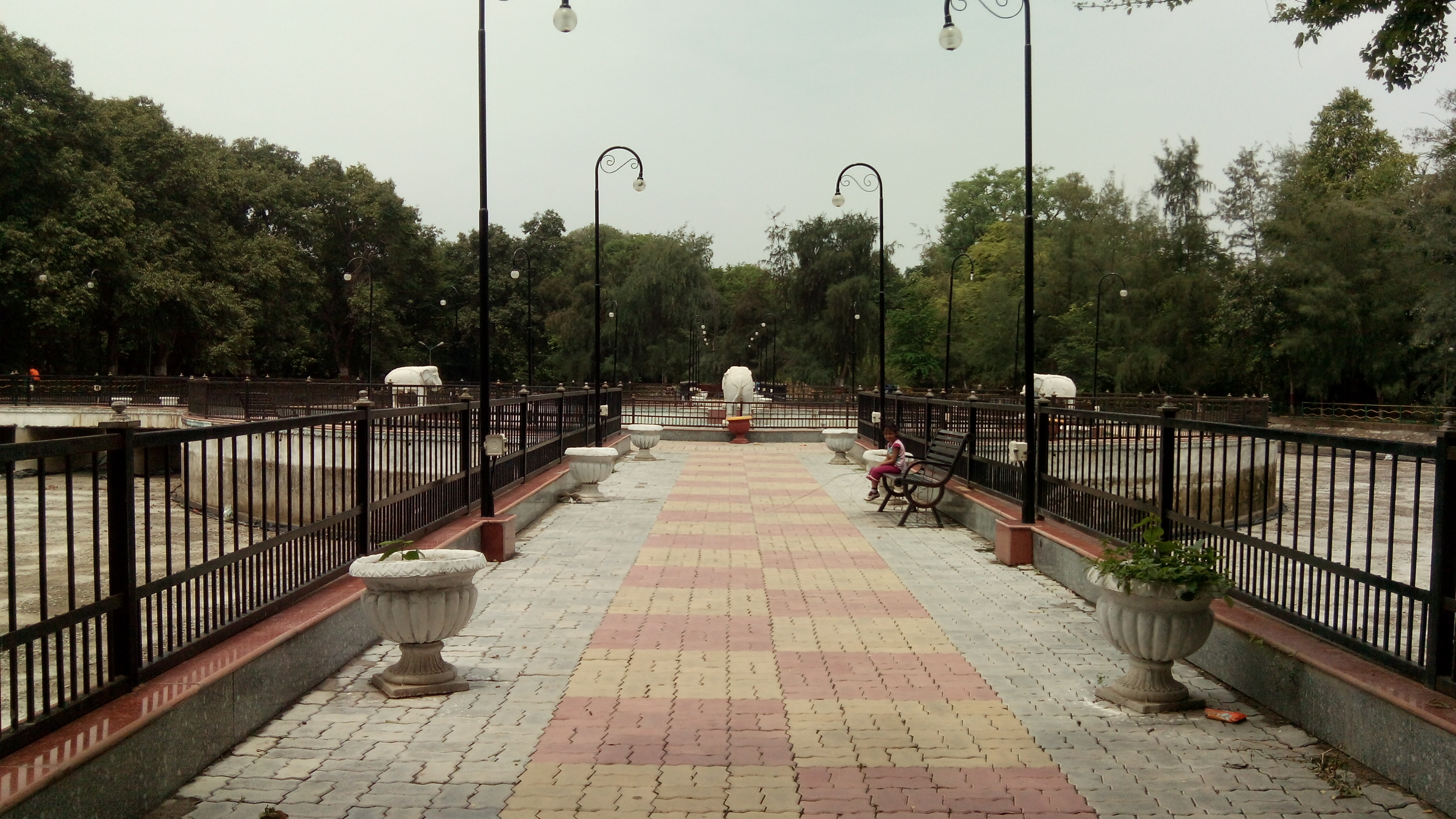 Picture showing the Kamal Talai Structure, an artificial pond situated in the Gulab Bagh garden, udaipur